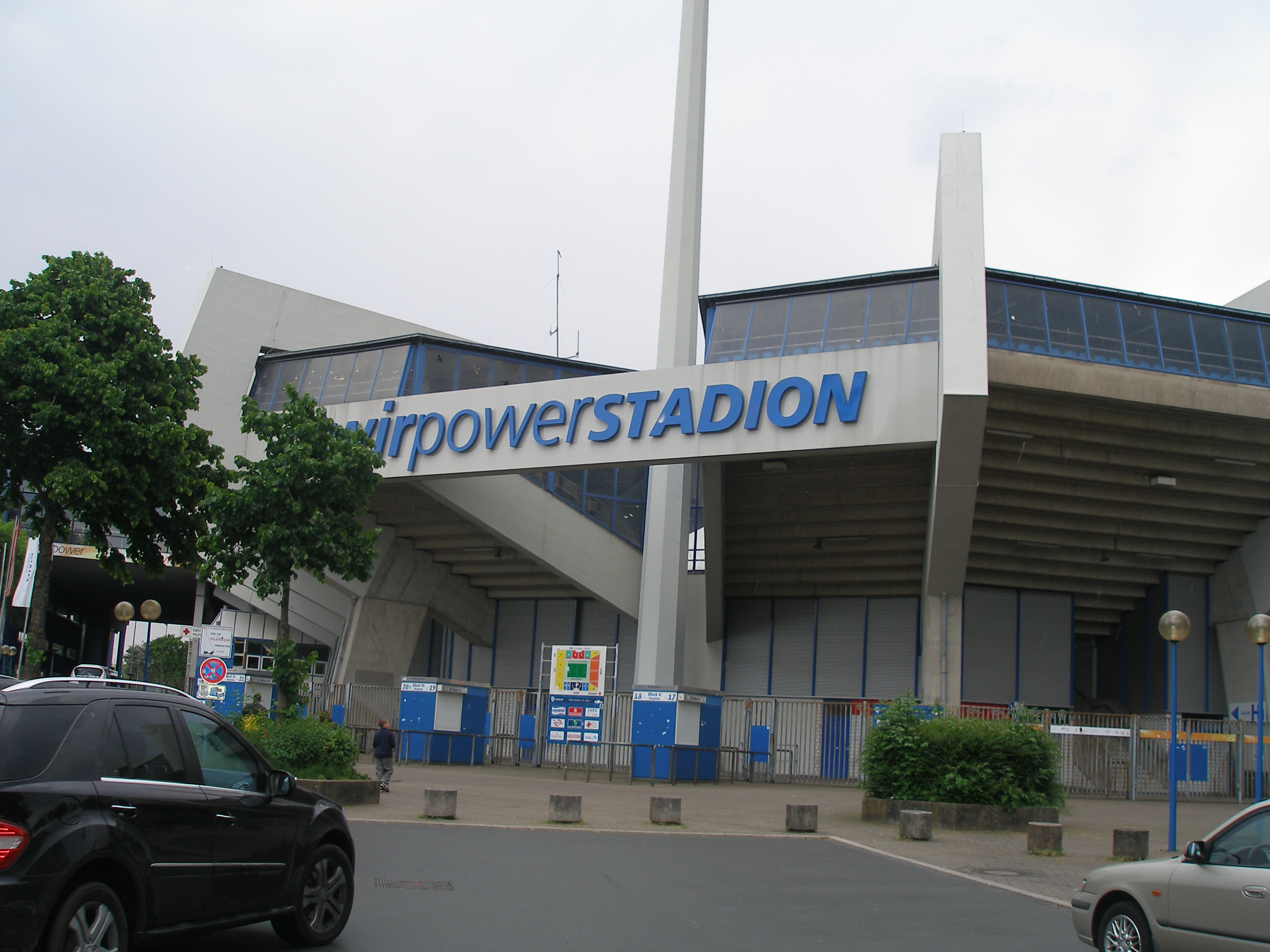 rewirpowerStadion